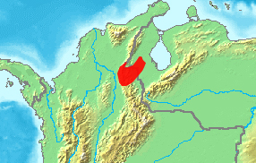 The extension of the Barí language